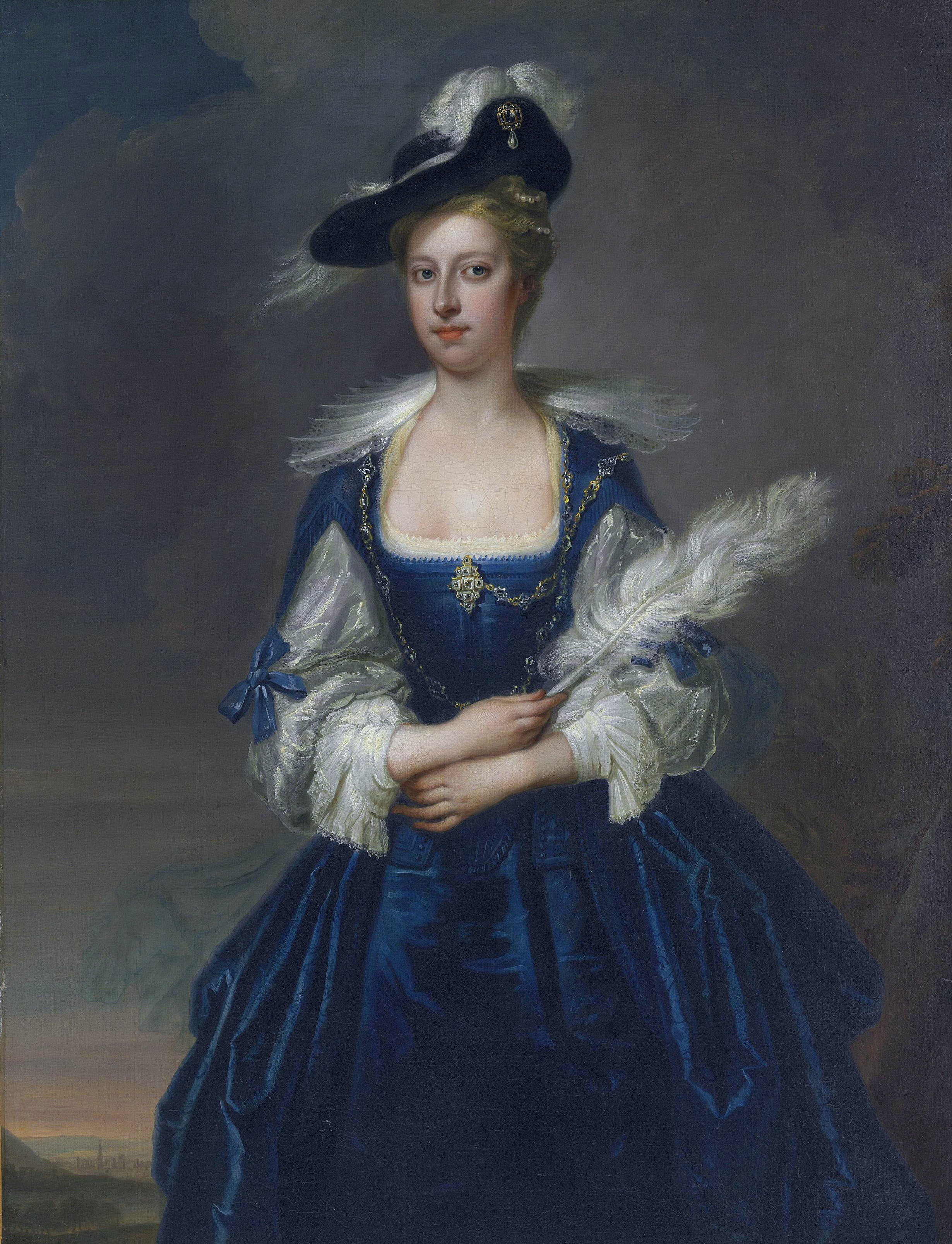 Elizabeth Dunch, later Lady Oxenden oil on canvas 141.9 x 109.9 cm 18th century